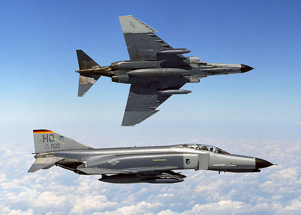 20th Fighter Squadron Luftwaffe McDonnell Douglas F-4F-54-MC Phantom 72-1150, with another F-4F over the skies of Holloman AFB, New Mexico